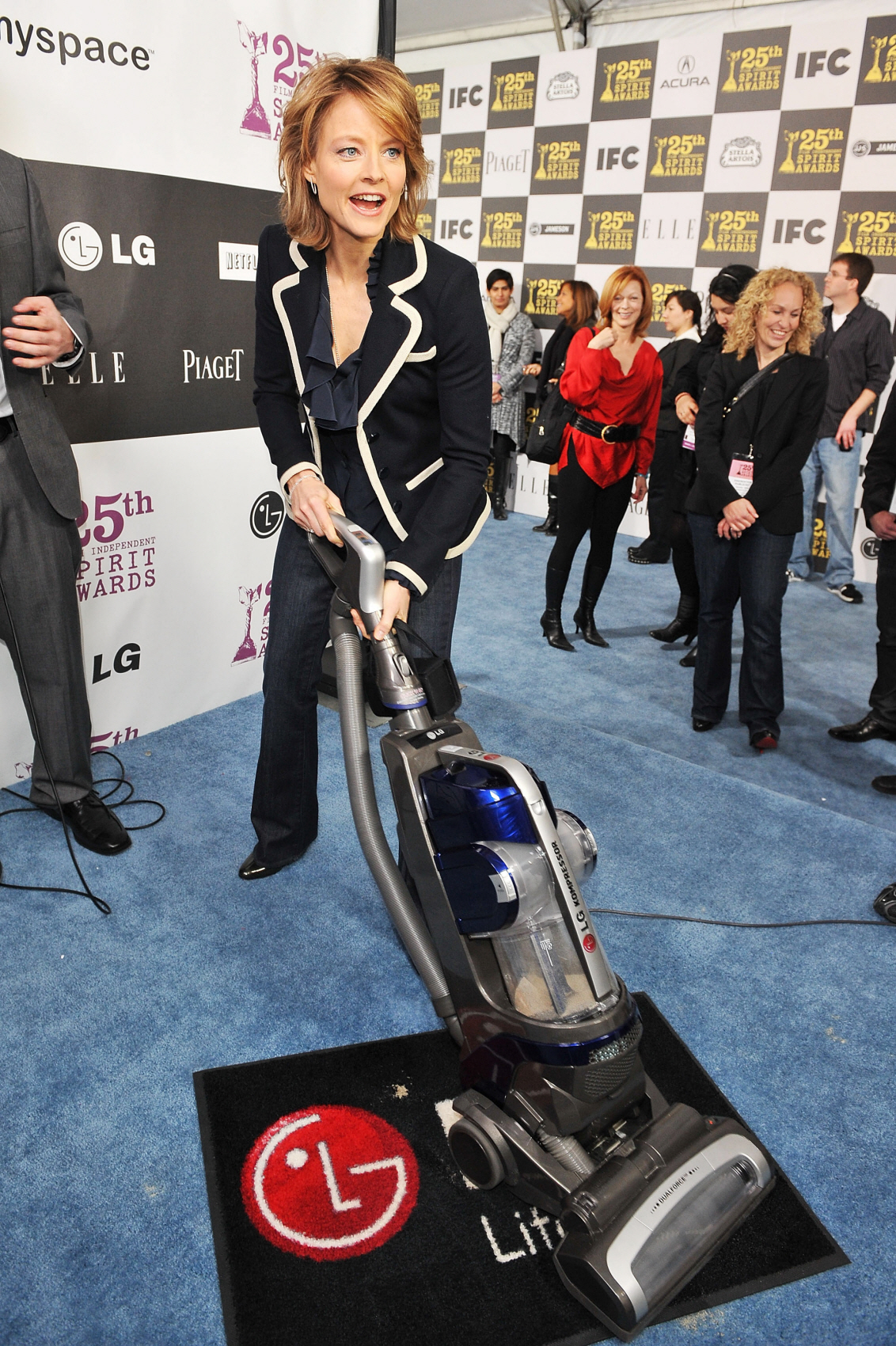 Actress Jodie Foster with the LG Electronics Kompressor Vacuum on The 25th Spirit Awards Blue Carpet held at Nokia Theatre L.A. Live on March 5, 2010 in Los Angeles, California. Photo by George Pimentel/WireImage.com.